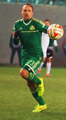 Gordon Schildenfeld